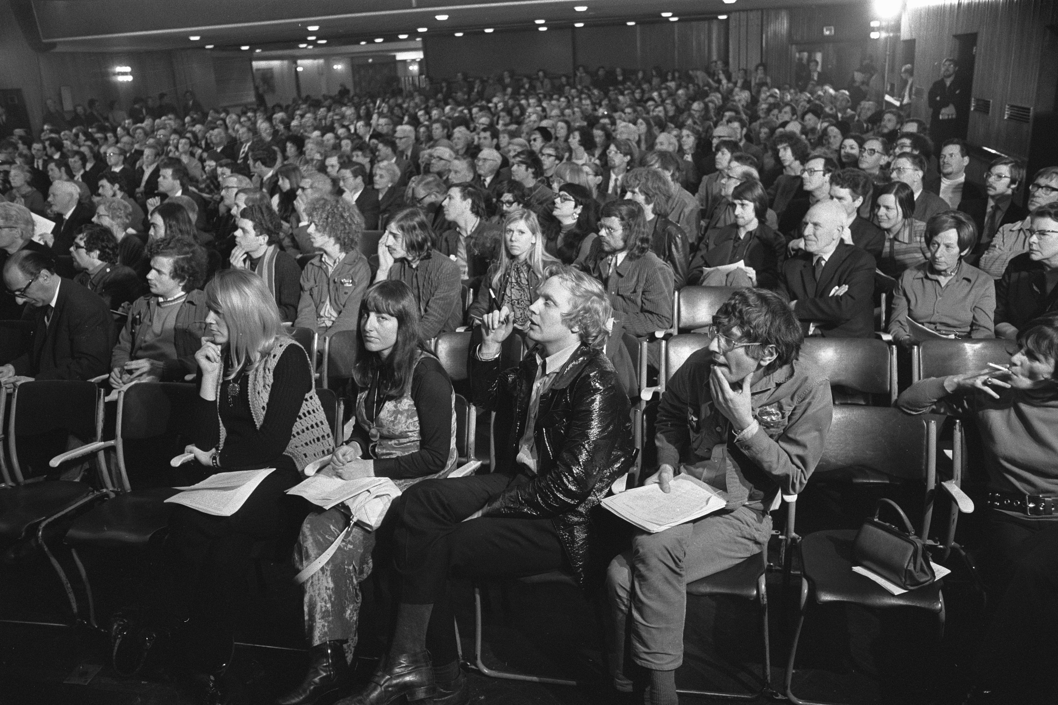 Discussion in Krasnapolsky between "De Notenkrakers" and the Concertgebouw Orchestra (Amsterdam). Front row Reinbert de Leeuw (right, with glasses), left next to him Peter Schat, April 22, 1970